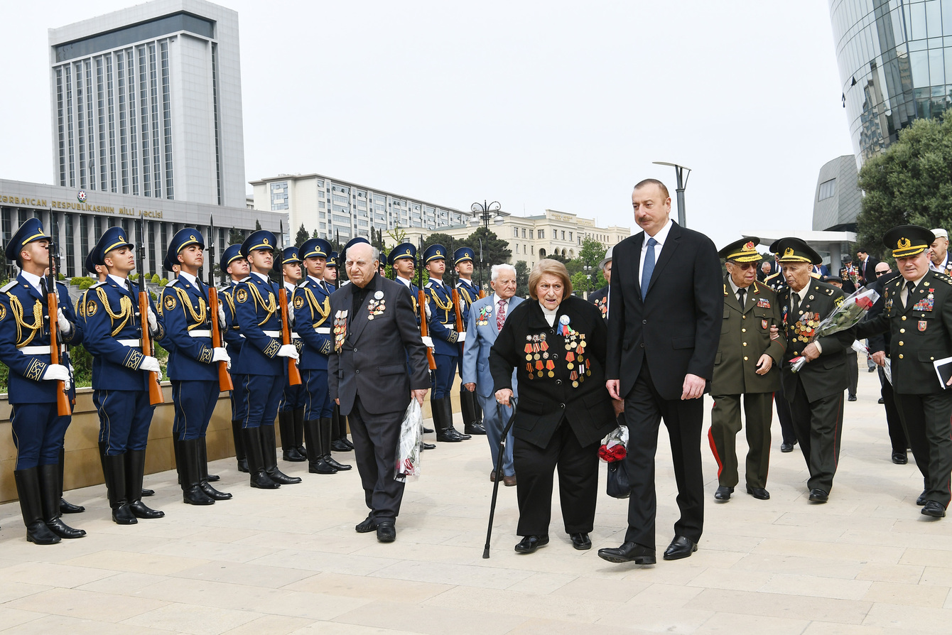 Ilham Aliyev attended ceremony to mark May 9 - Victory Day in Baku